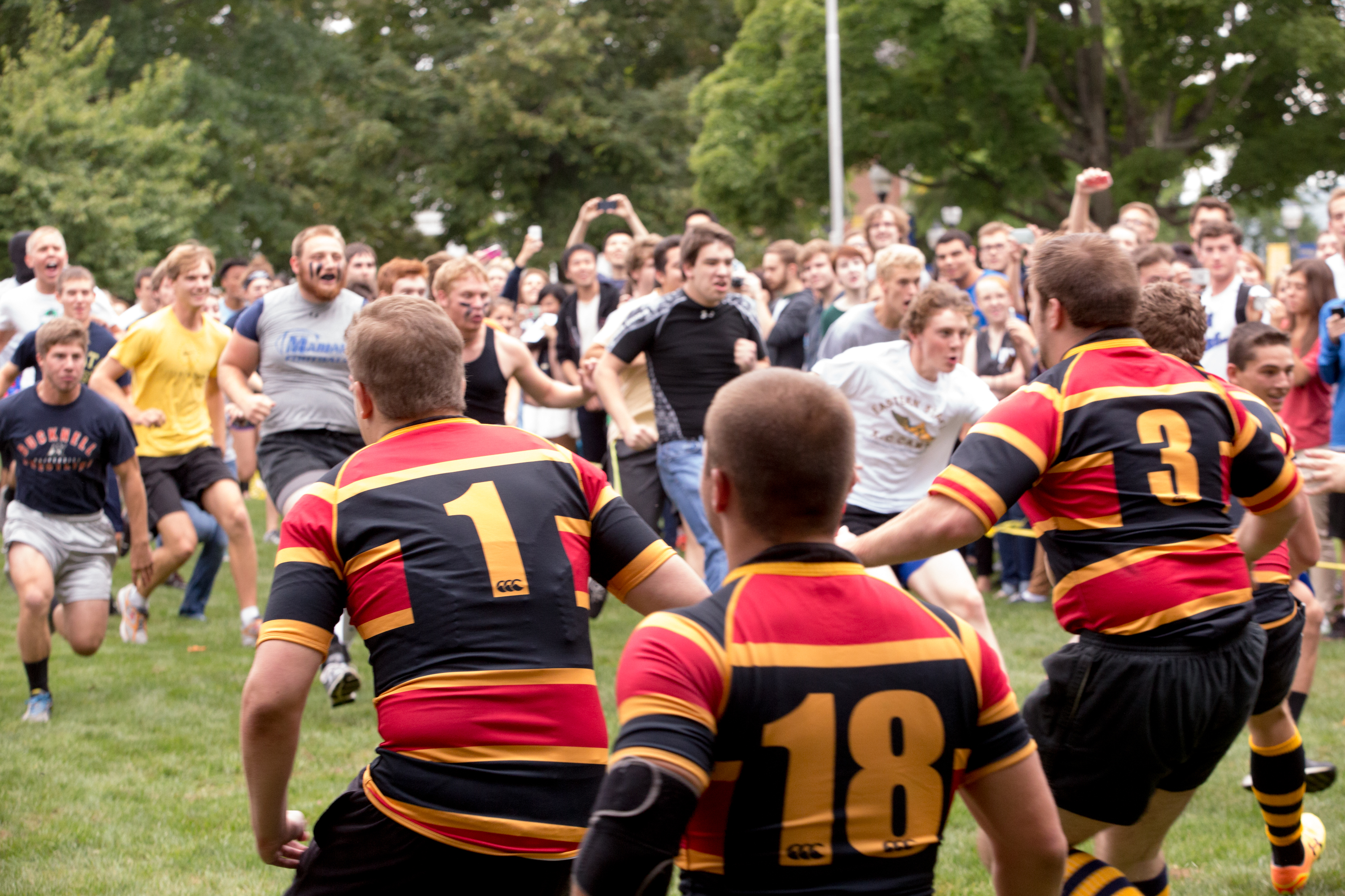 Campus Tradition